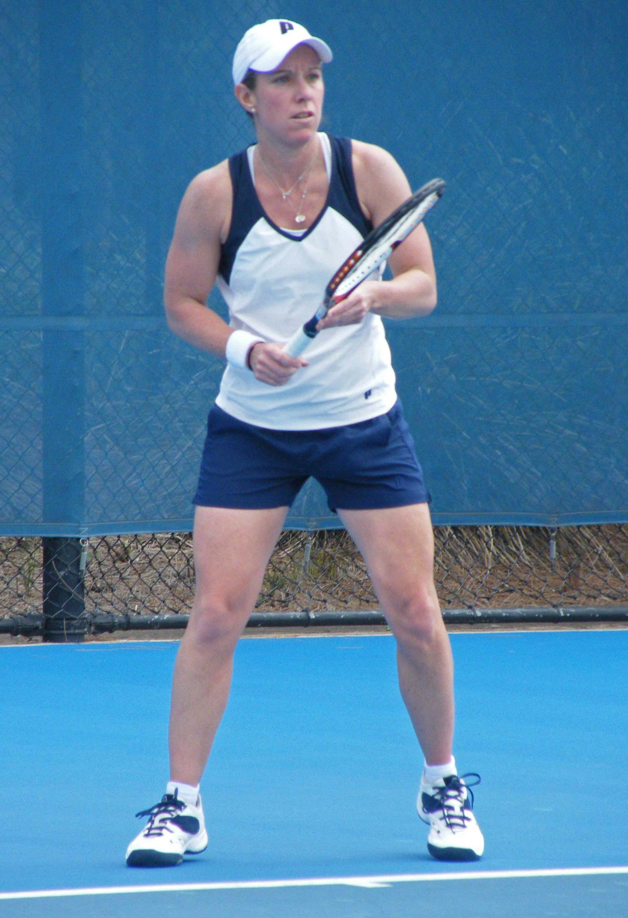 Lisa Raymond in January 2011